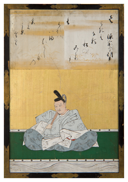 Sanjūrokkasen-gaku (Thirty-six Poetry Immortals framed picture) #18: Minamoto no Muneyuki Asomi